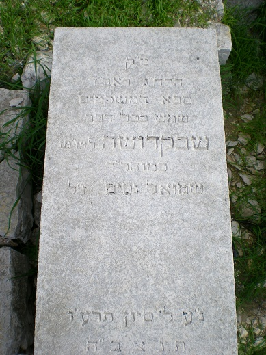 Shmuel Nissim's tomb and grave at the Mount of Olives in Jerusalem